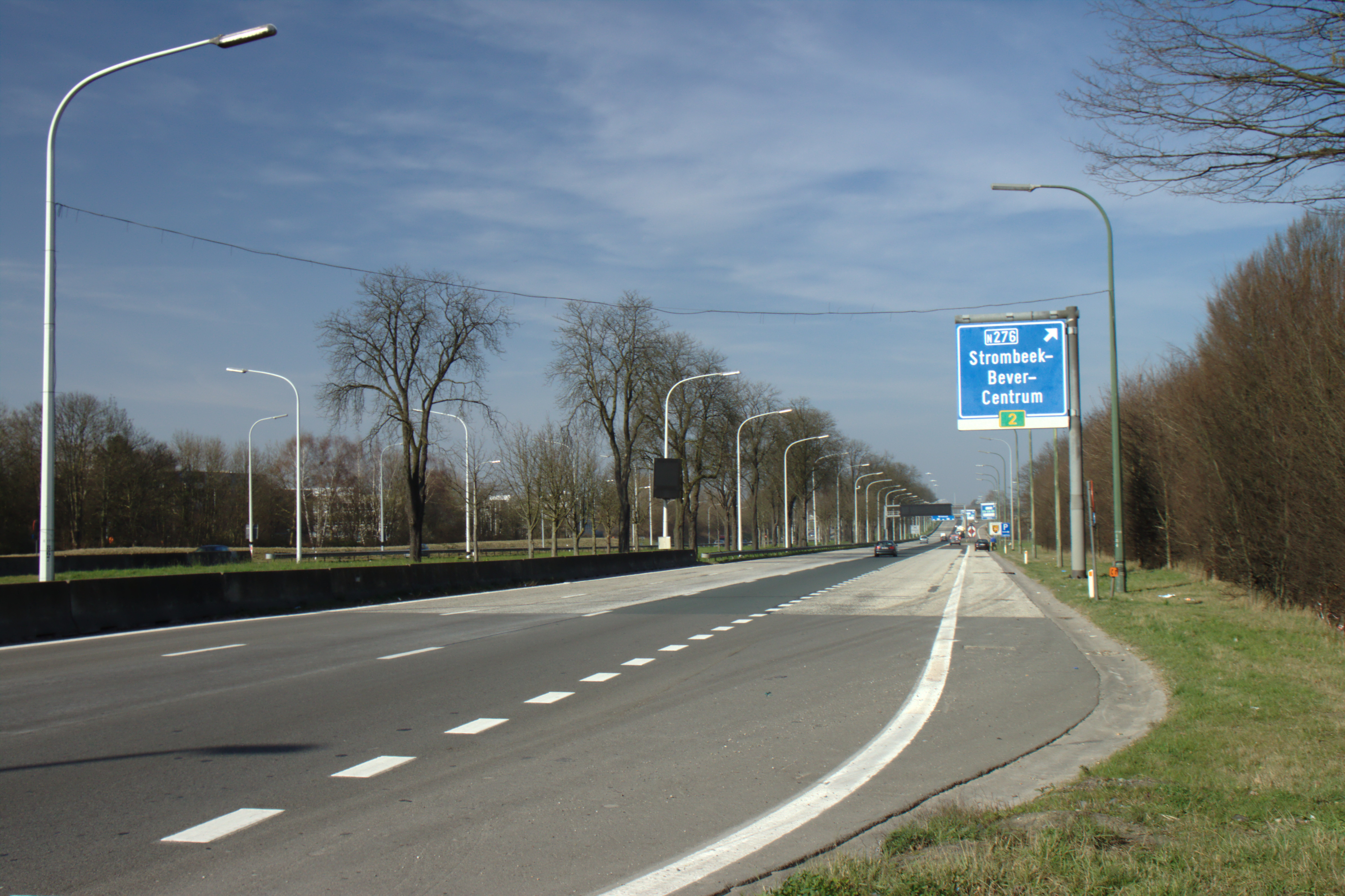 Beginning of the A12 highway near Esplanade tram stop, Belgium